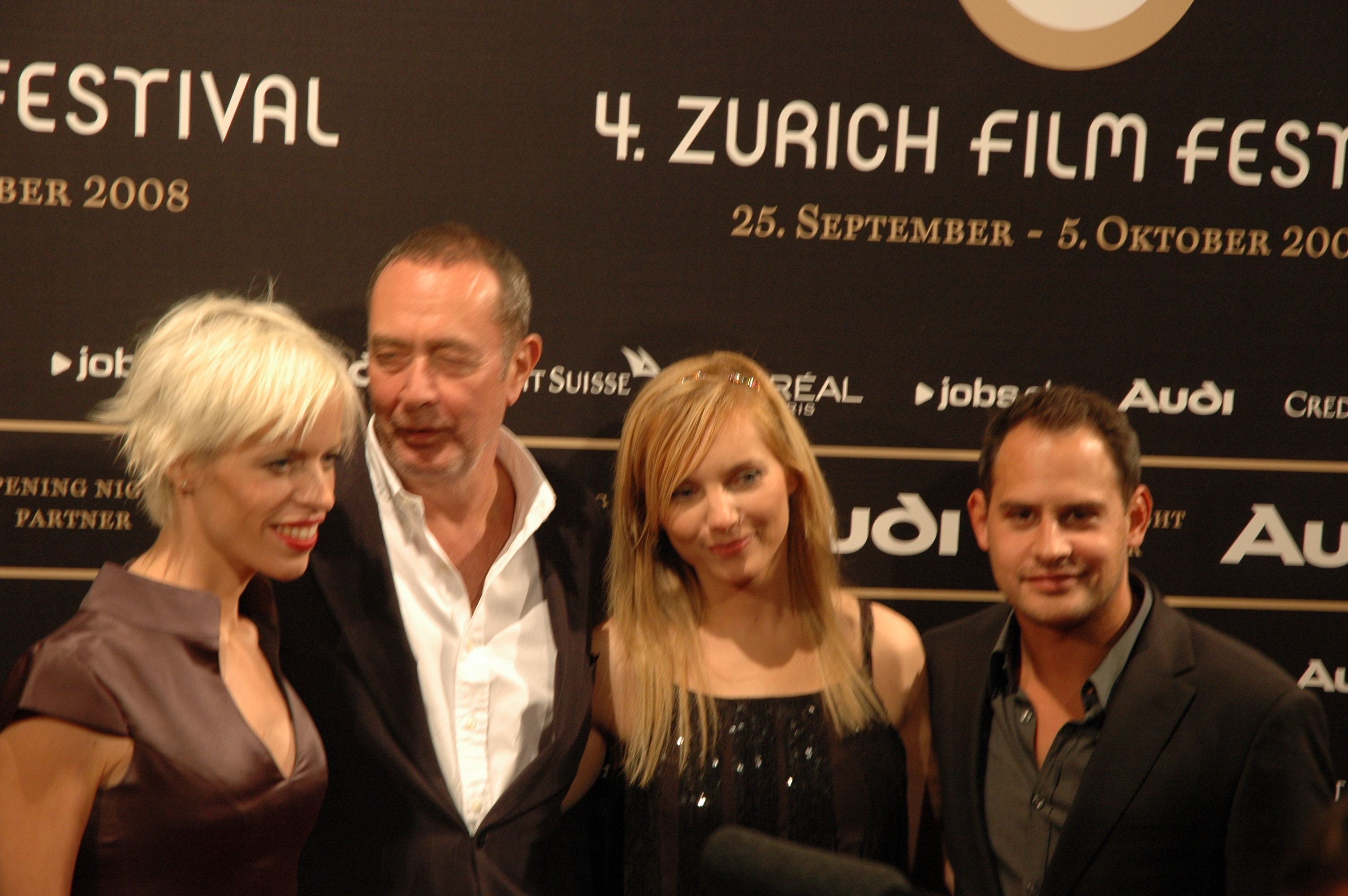 (right to left) Moritz Bleibtreu, Nadja Uhl and Bernd Eichinger at the 4. Zurich Film Festival 2008 opening